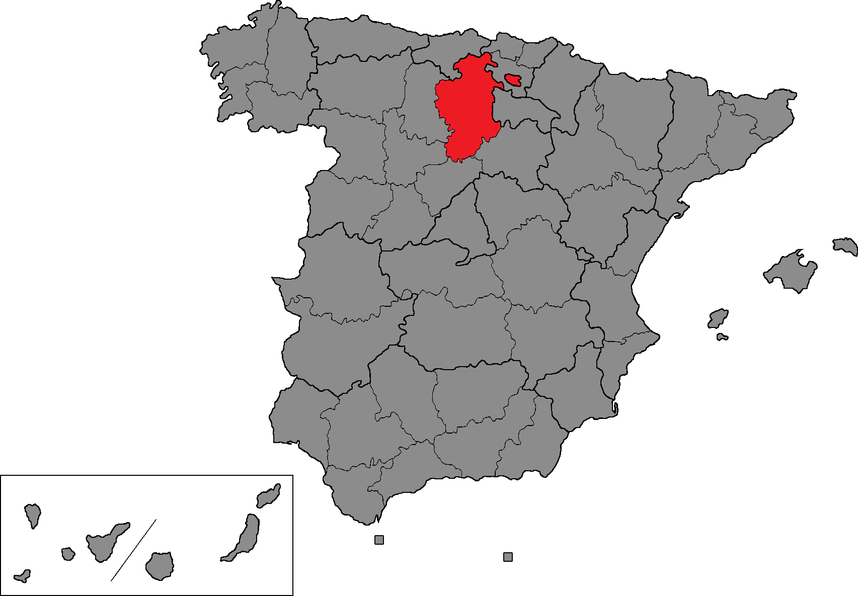 Spanish Congress of Deputies district of Burgos.